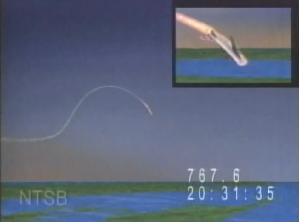 A frame from the NTSB's re-creation of TWA 800's flightpath